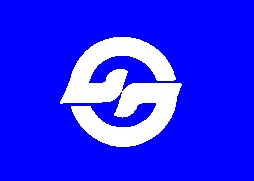 Flag of Fukusaki Hyogo